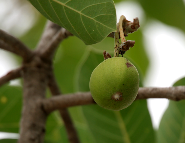 Madhuca longifolia var. latifolia (syn. Bassia longifolia, B. latifolia, M. indica, M. latifolia, Illipe latifolia, I. malabrorum) - Indian Butter Tree • Hindi: Mahua महुआ • Bengali: Maul • Hindi: Mohwa • Marathi: Kat-illipi • Malayalam: Illupa • telugu: Ippa - in Narsapur, Medak district, Andhra Pradesh, India.